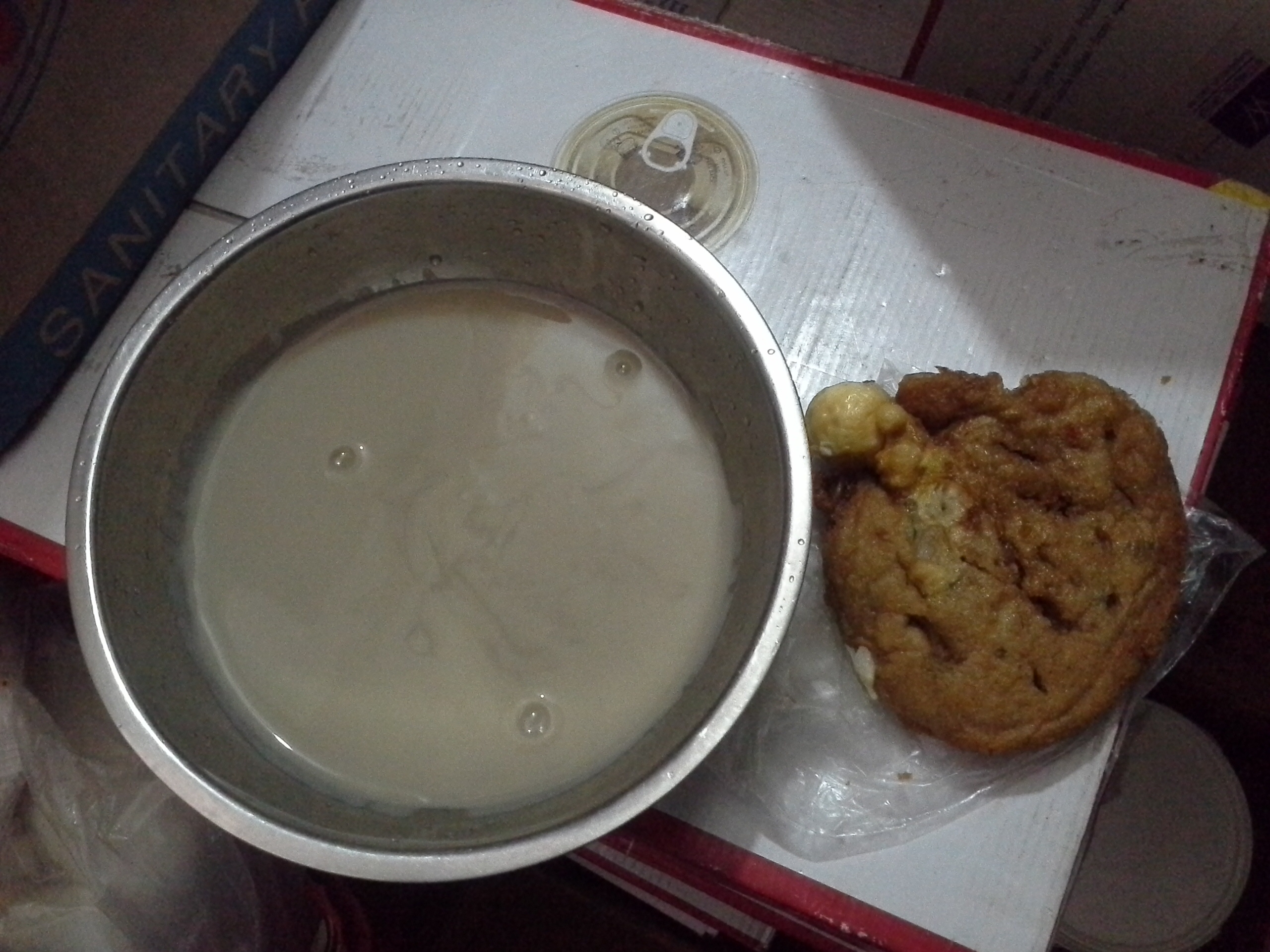 A popular breakfast food in Accra, Koko = soured and spicy millet porridge, Koosie = West African variant of the Italian flatbread called "Cosi". This is an image of food from Ghana